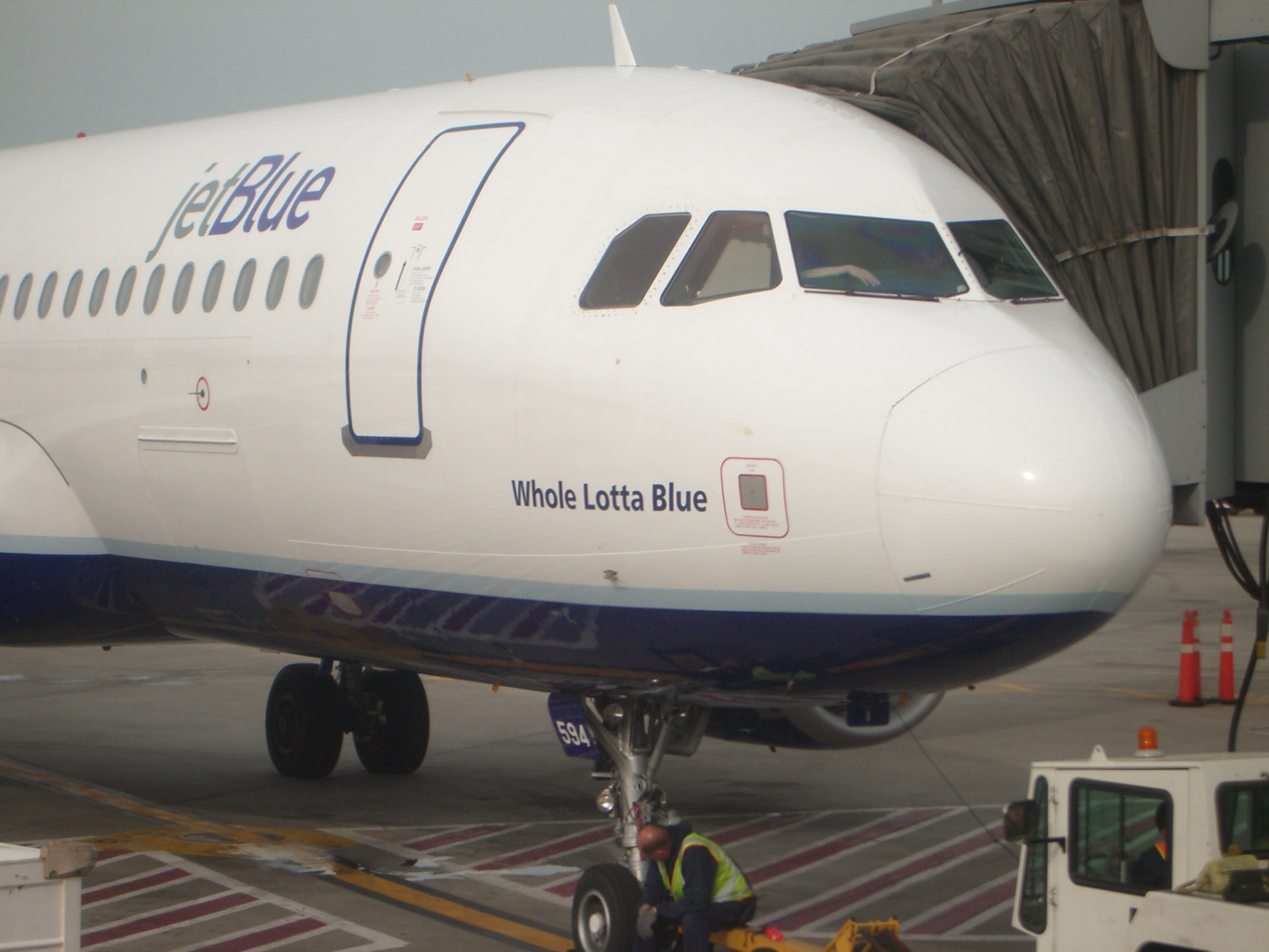 jetBlue plane: Airbus A320-232 N594JB